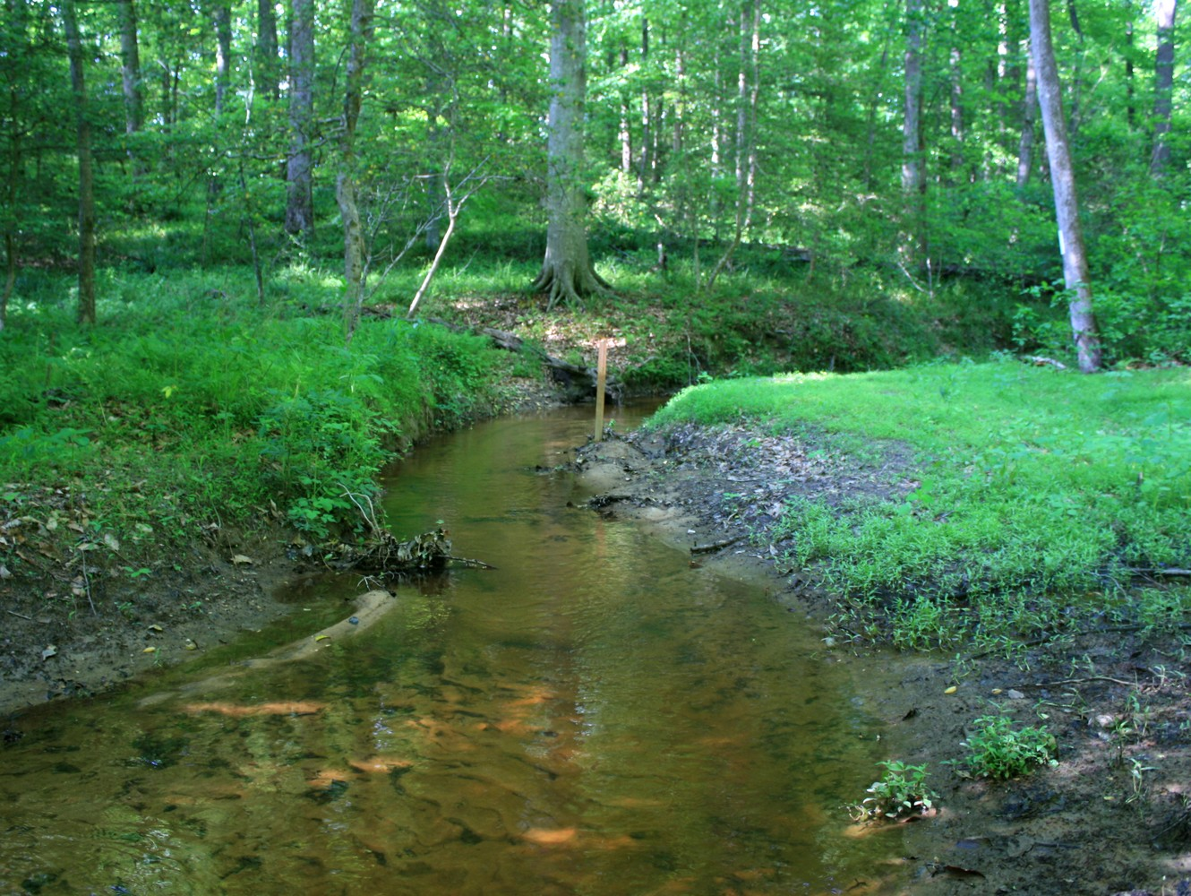 Gaines Mill battlefield, Boatswain Creek